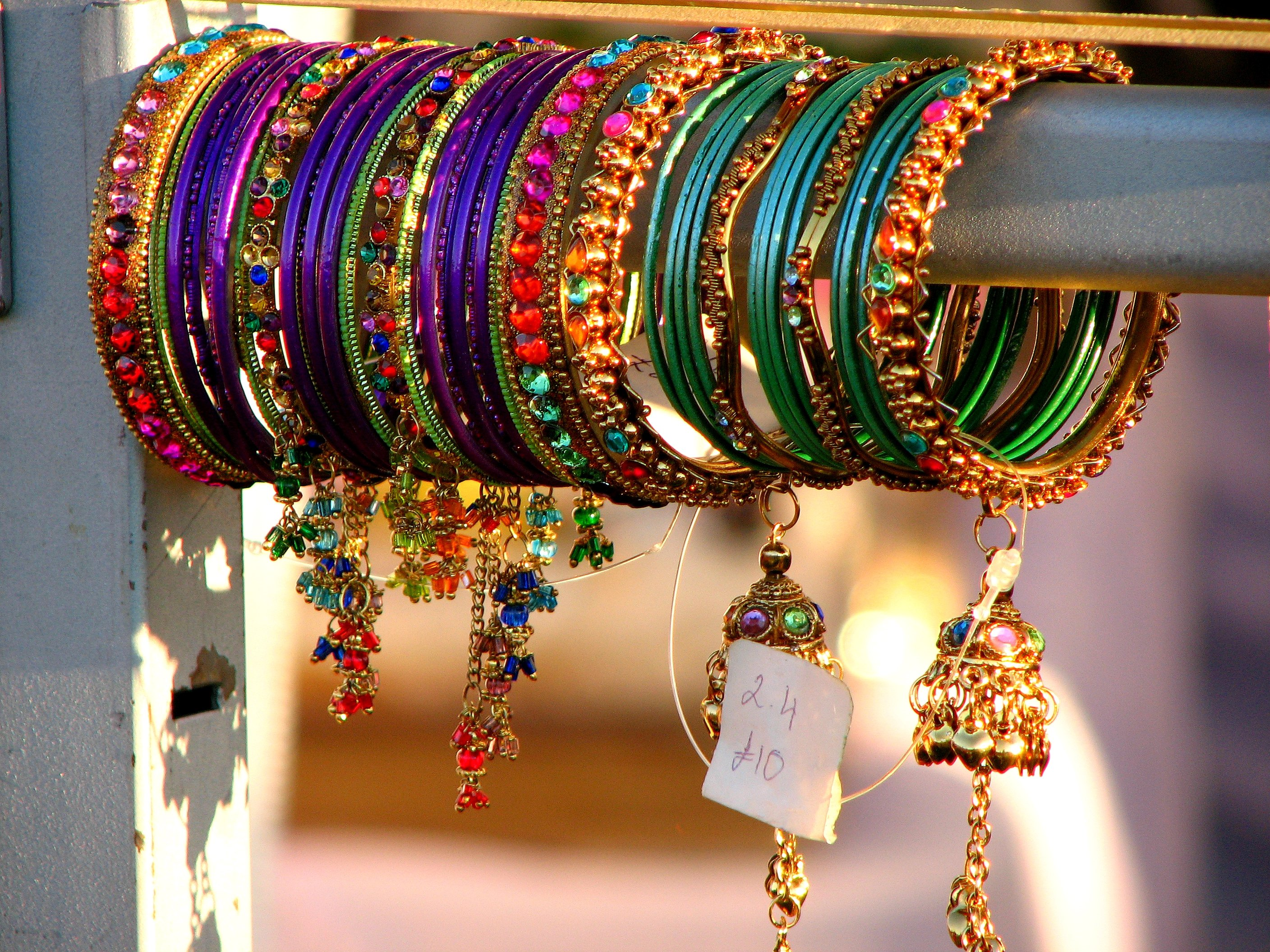 Taken at the London Mela 2007.